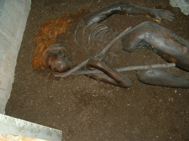 Reconstruction of the Bog body Windeby I at the Gaytalpart in Obersegen, Germany